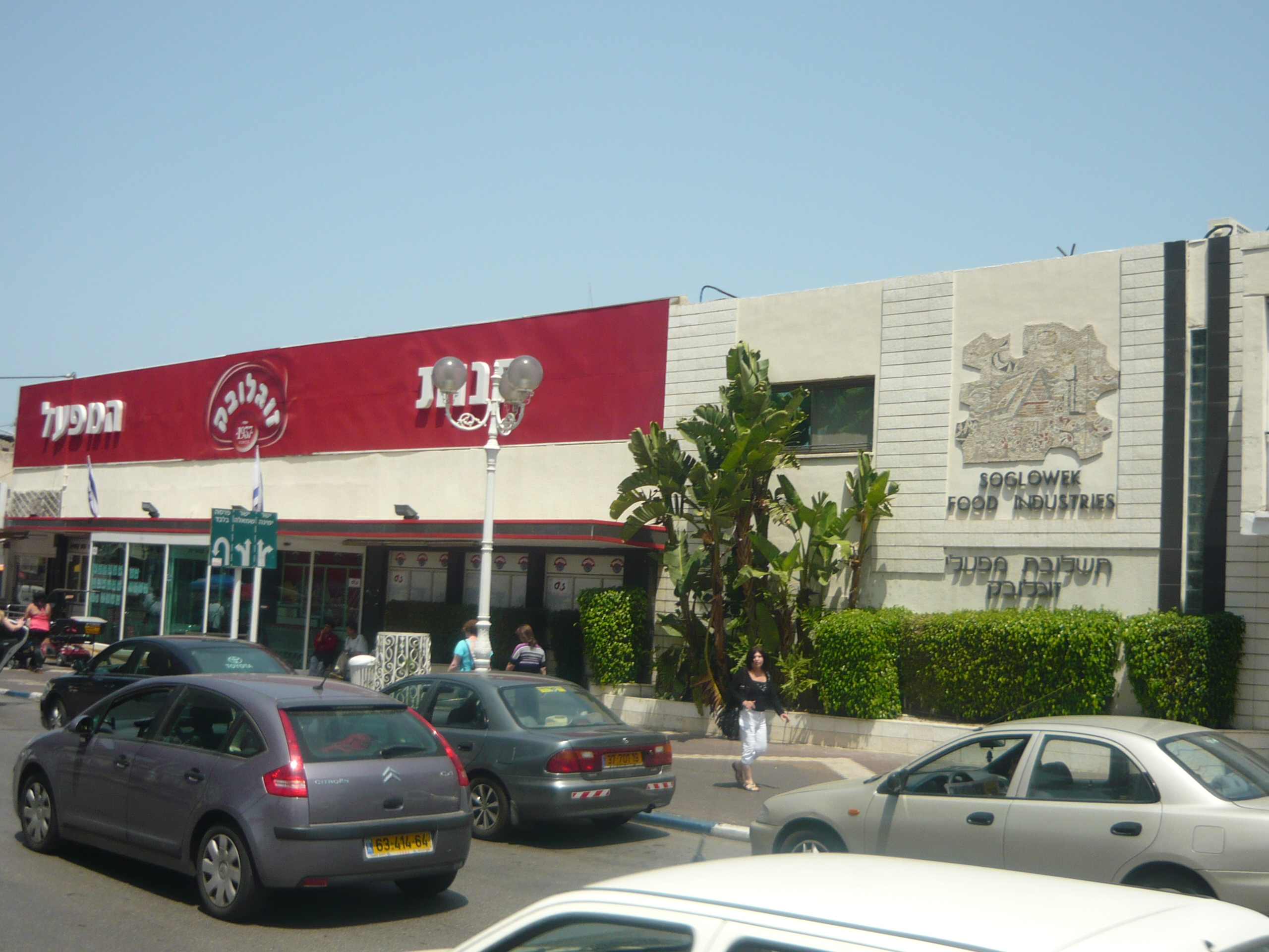 Soglowek store in Nahariya חנות המפעל של זוגלובק בשד' הגעתון בנהריה